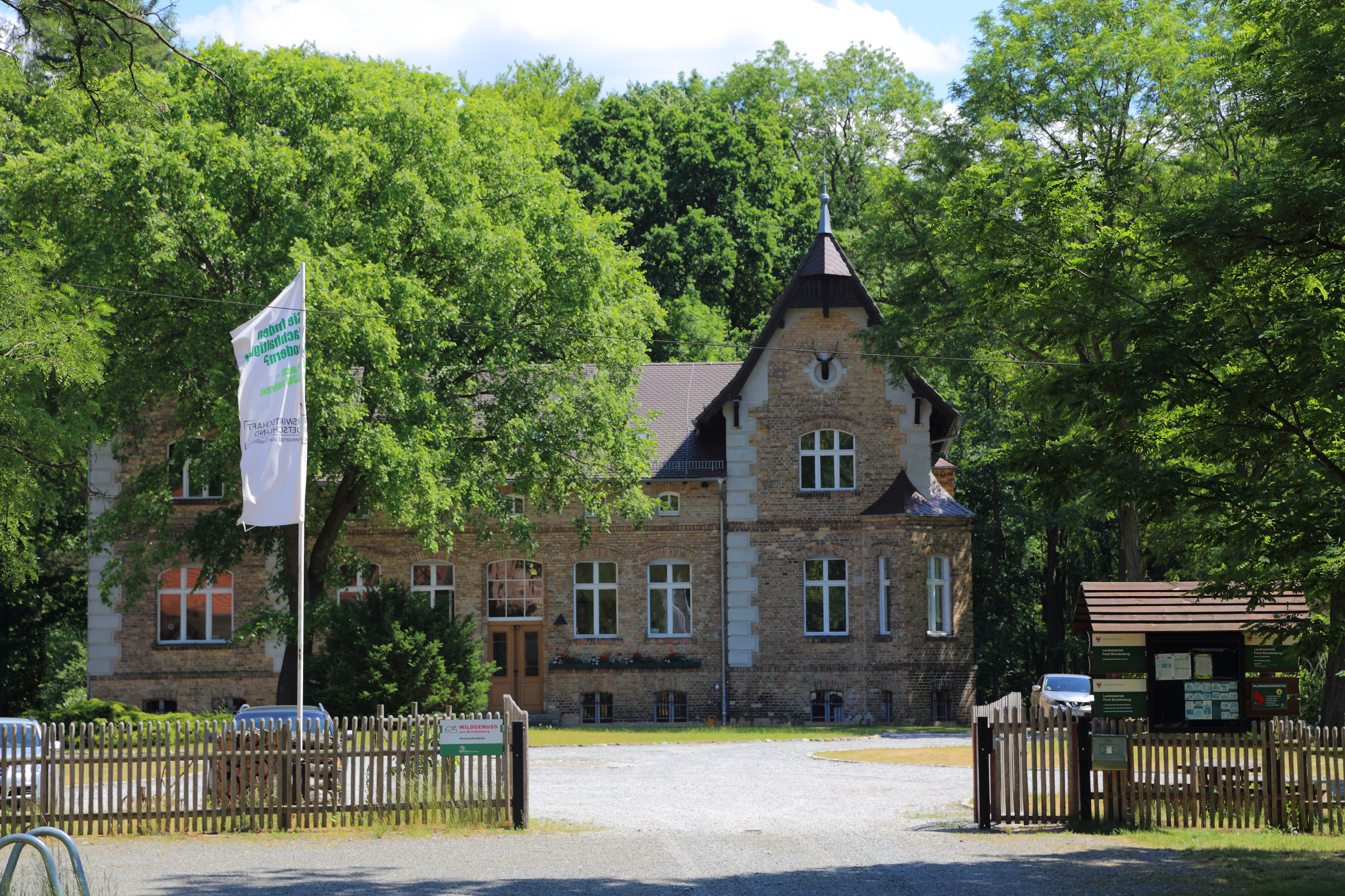 Main building of the Oberförsterei Hammer, a forester's lodge in Löpten, a district of Groß Köris, Landkreis Dahme-Spreewald, Brandenburg, Germany.